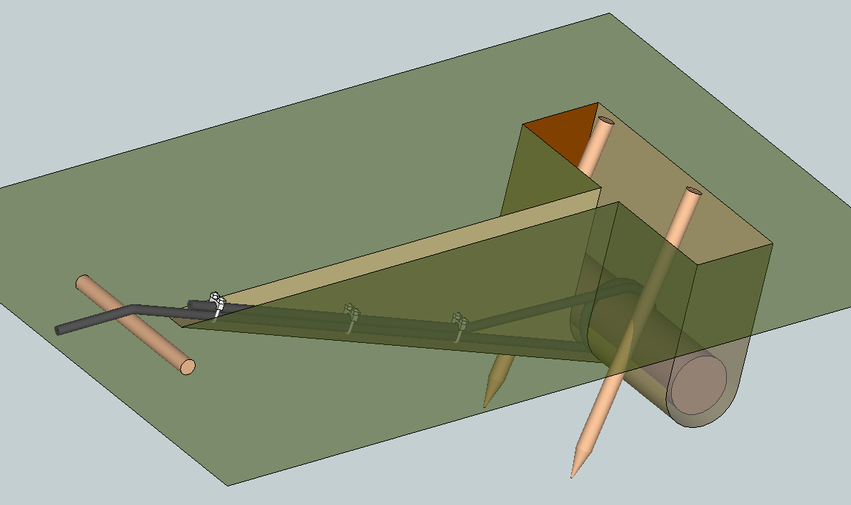 Ground anchor, semi-transparent view, according to G. P. J. Feydt "Bergung und Rettung", Bd. 2, S. 96 (Bonn 1971)